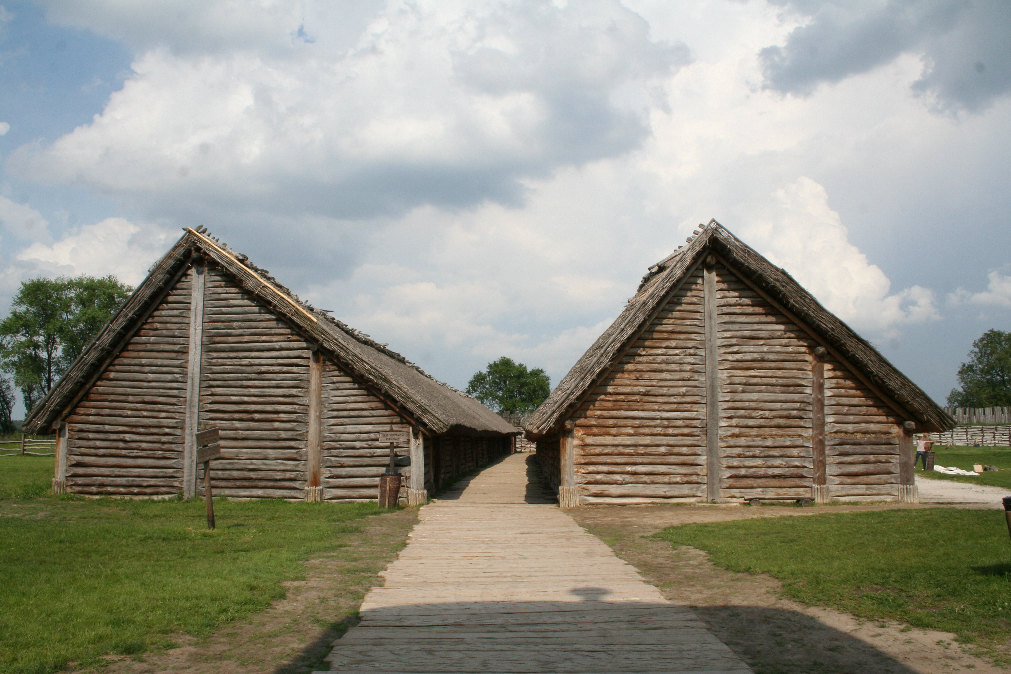 Archaeological open air museum Biskupin